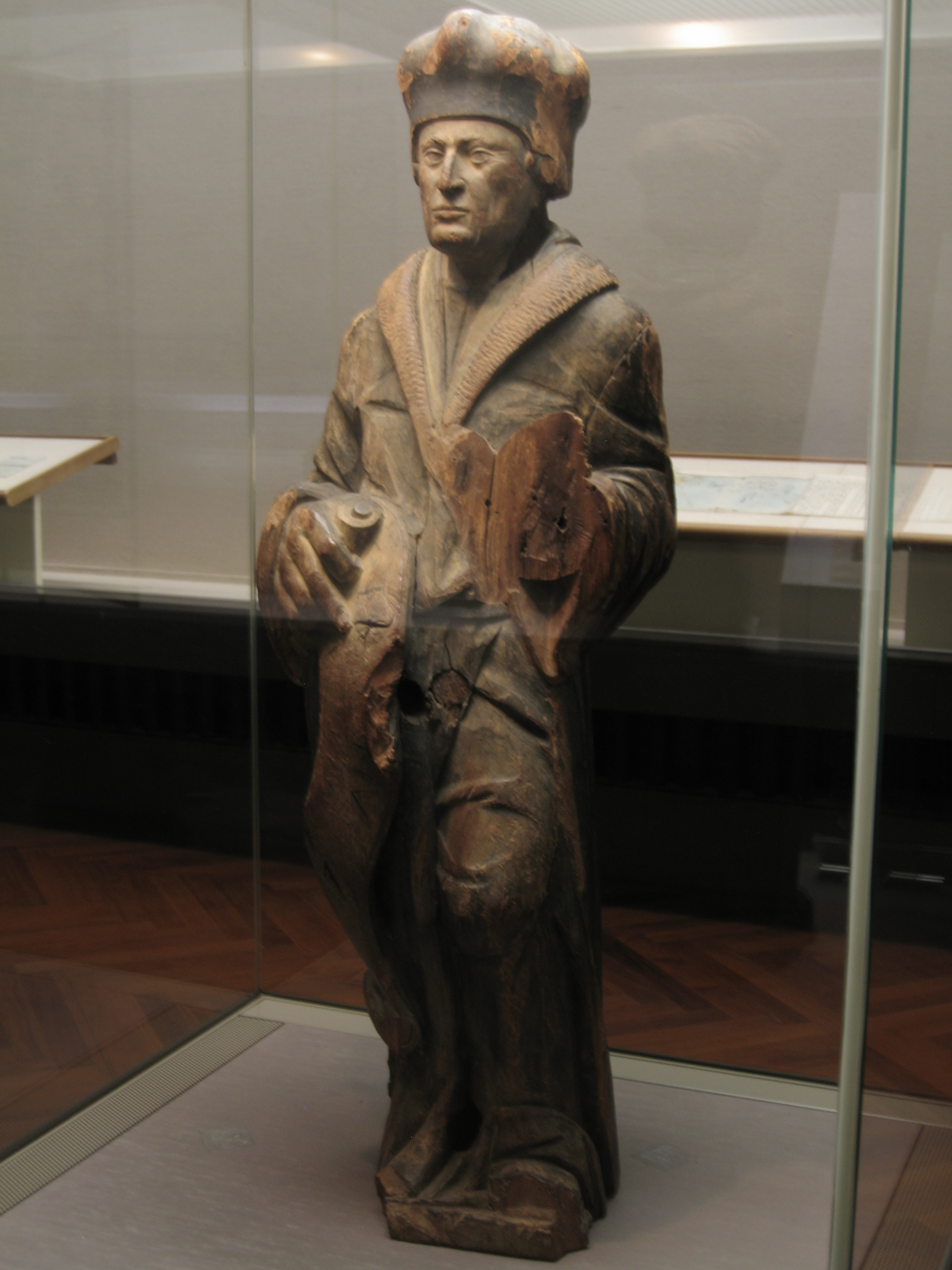 A wood figure of Desiderius Erasmus made in 1598. It was the stern ornament of De Liefde which was the Galleon washed out to Japan in 1600. A collection of Ryuko-in Temple at Tochigi Prefecture. Displayed in Tokyo National Museum.